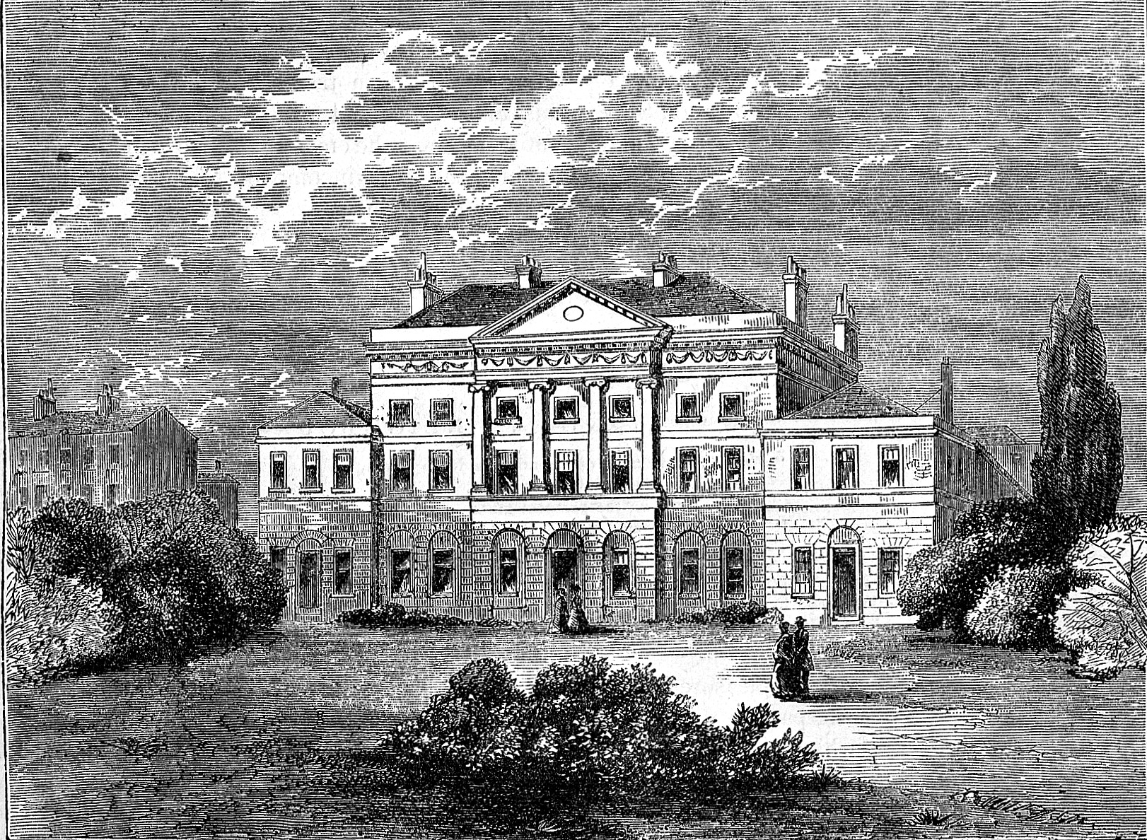 Lansdowne House. General Collections Keywords: london: 19th century